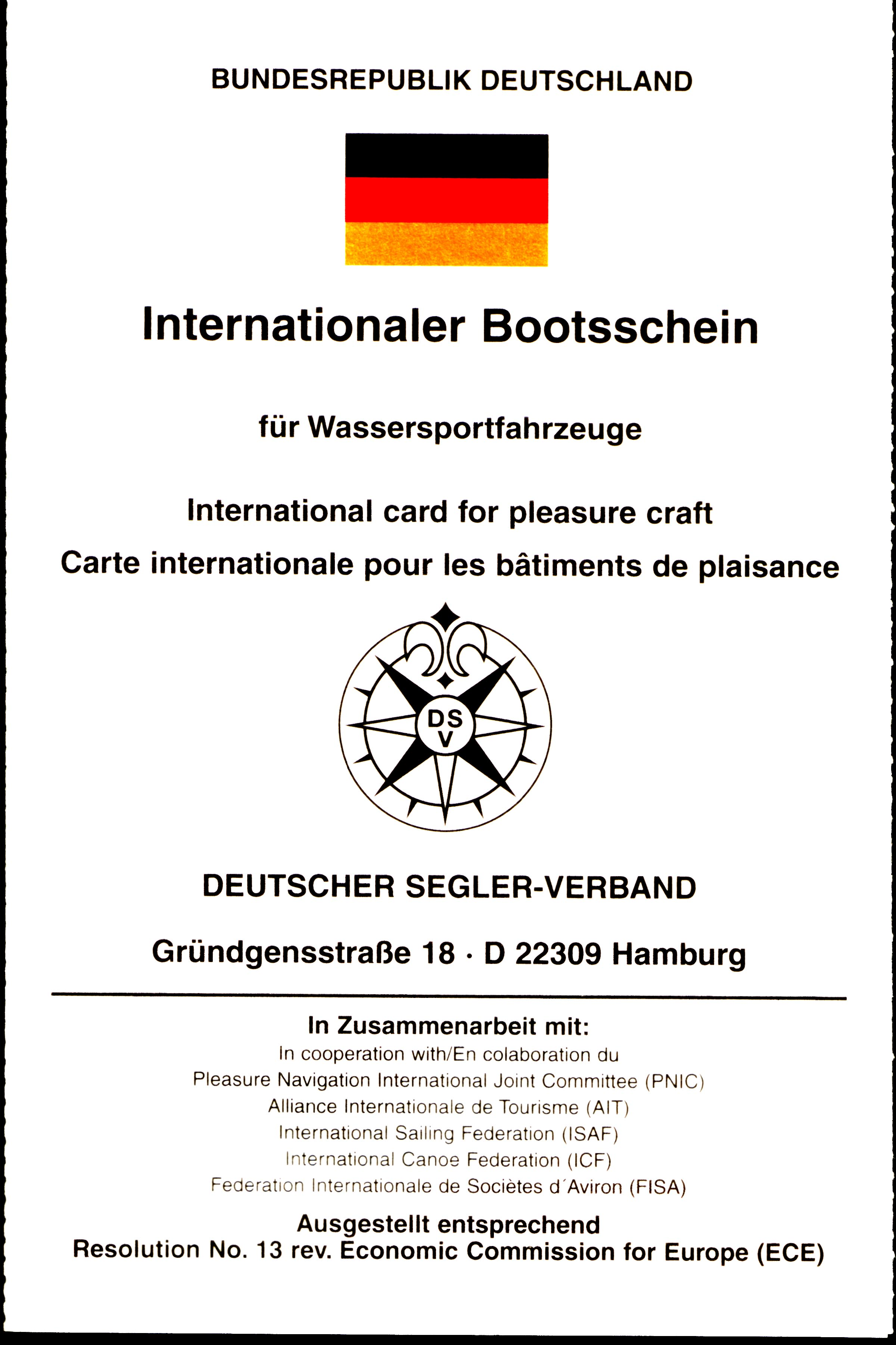 Internationaler Bootsschein